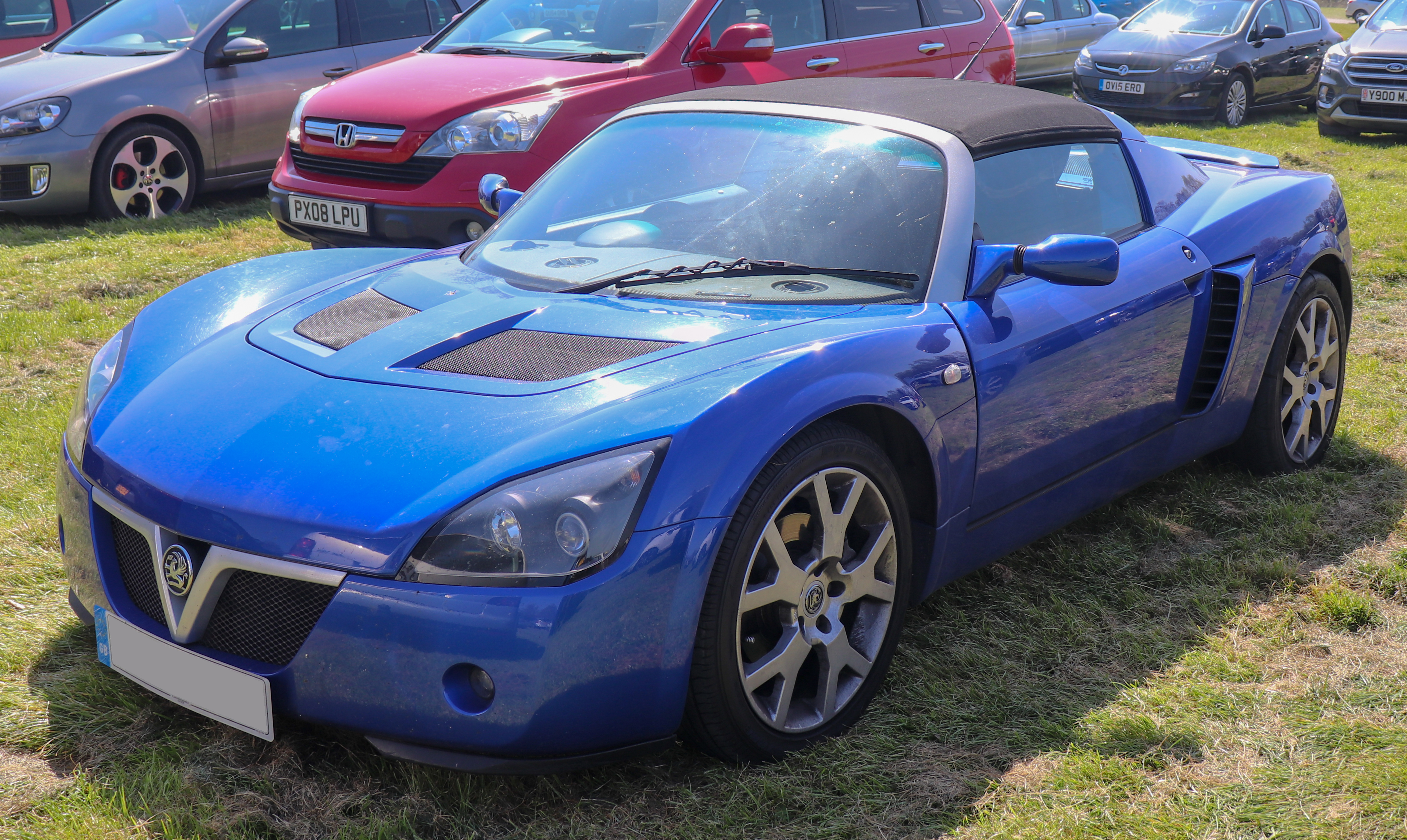 2004 Vauxhall VX220 Turbo 2.0 Taken at NAEC Stoneleigh, Stoneleigh, Coventry